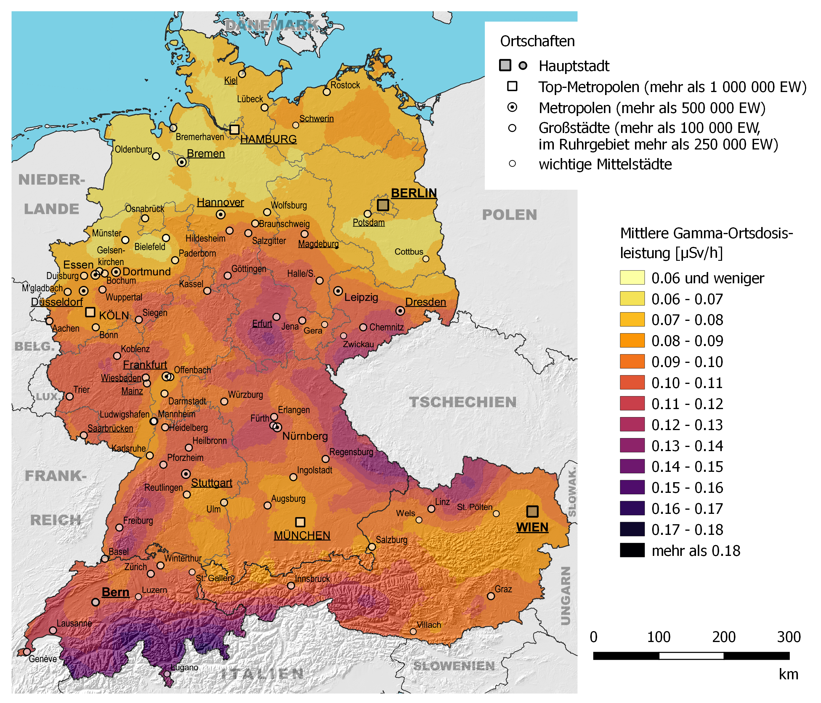 Map of mean annual radiation exposure (terrestrial gamma) in the (partial) German-speaking countries of central Europe and the Alpine realm (“DACHL”), based on data from 2016 (Germany, Switzerland) and 2017/2018 (Austria); for details see below.